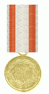 Allgemeines Preusisches Ehrenzeichen in Gold. 1890 - 1900